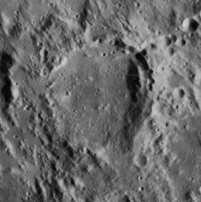 Rhaeticus, on the moon.